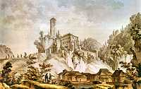 View of castle in Ojców